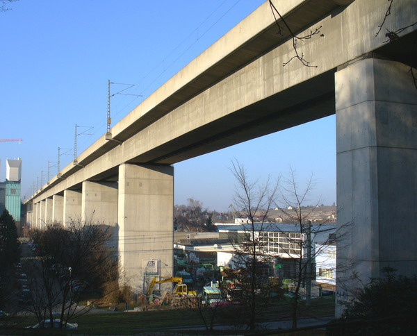 Railway bridge from Stuttgart-Münster to Stuttgart-Bad Cannstatt, spanning over the river Neckar.